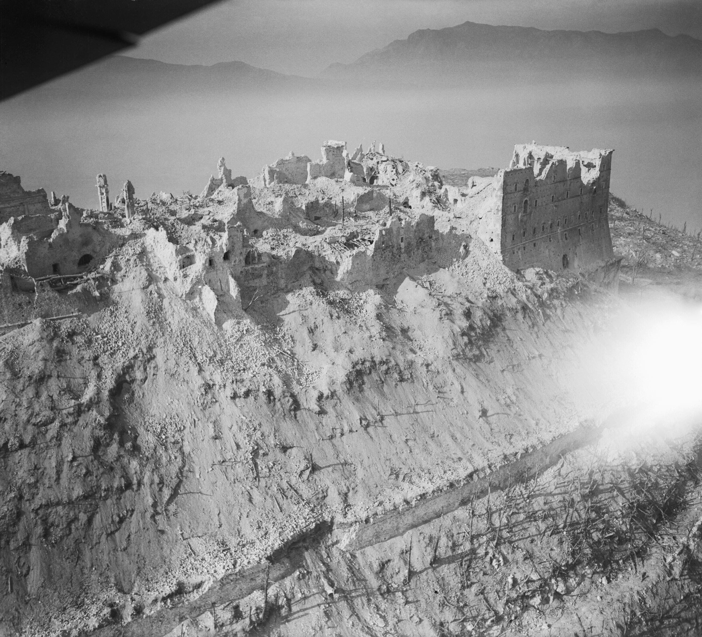 The Battle of Cassino, January-may 1944 Third Phase 11 - 18 May 1944: A low aerial view of the Monastery showing its complete destruction.